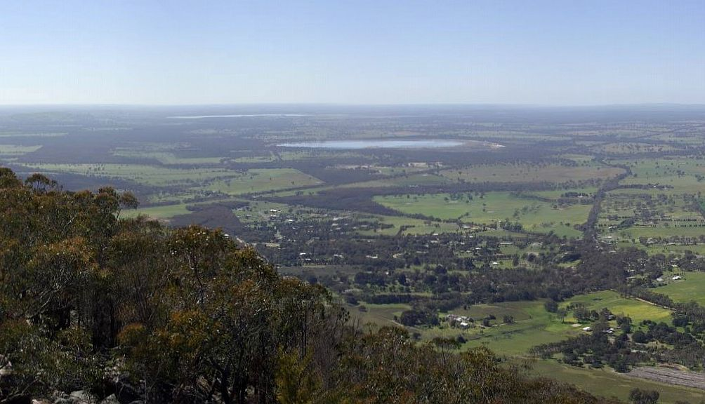 Pomonal and Lake Fyans as seen from Mount Cassel, Grampians National Park, Victoria.